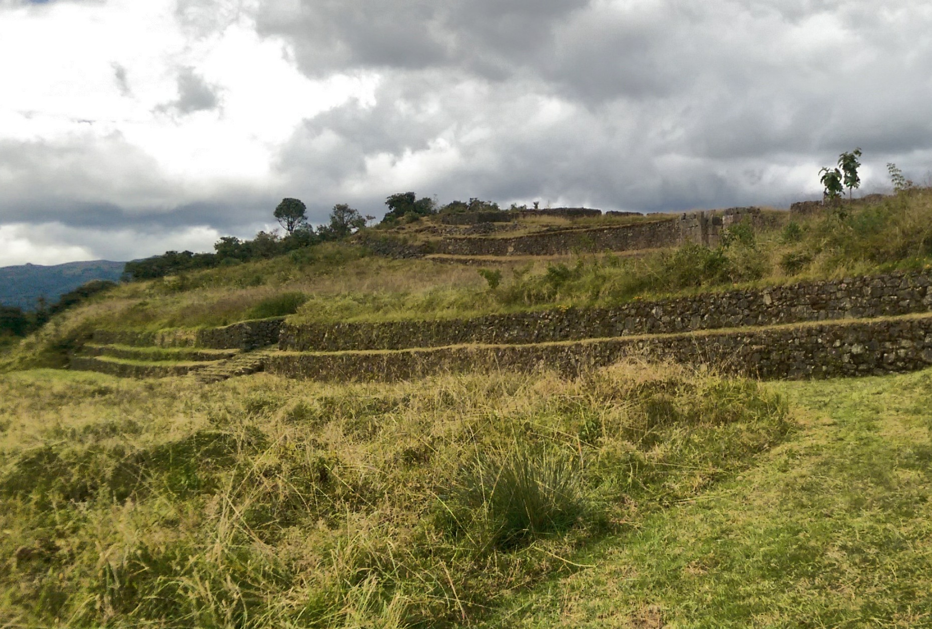 A panoramic front view of the Acllawasi at the historical site Aypate, Department of Piura, Peru.